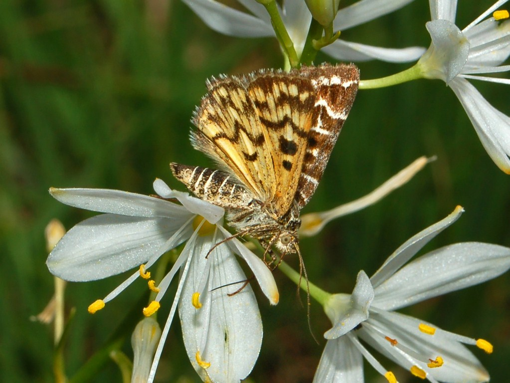 Euclidia mi